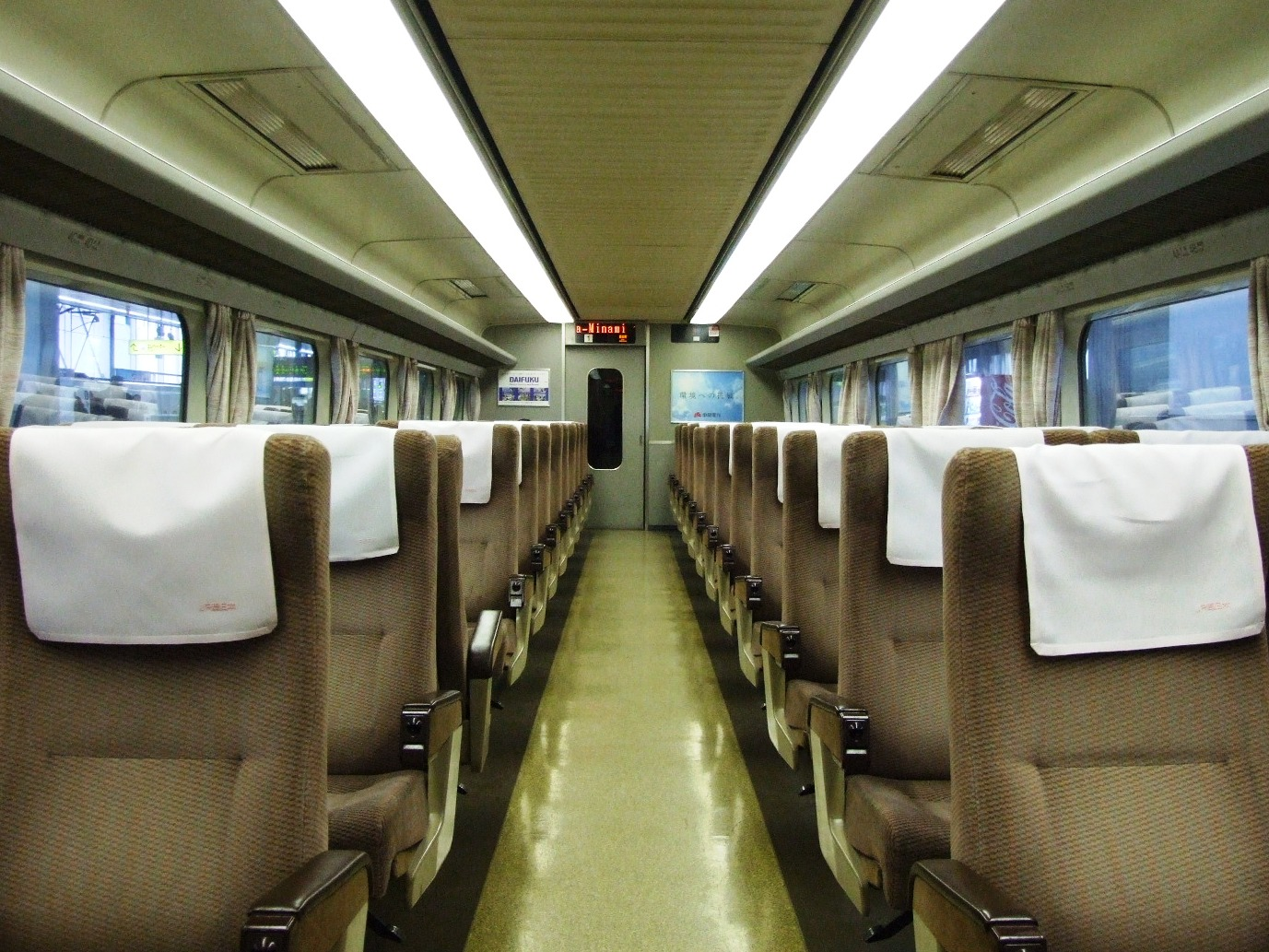 Inside of Series 100 P sets,West Japan Railway,Japan